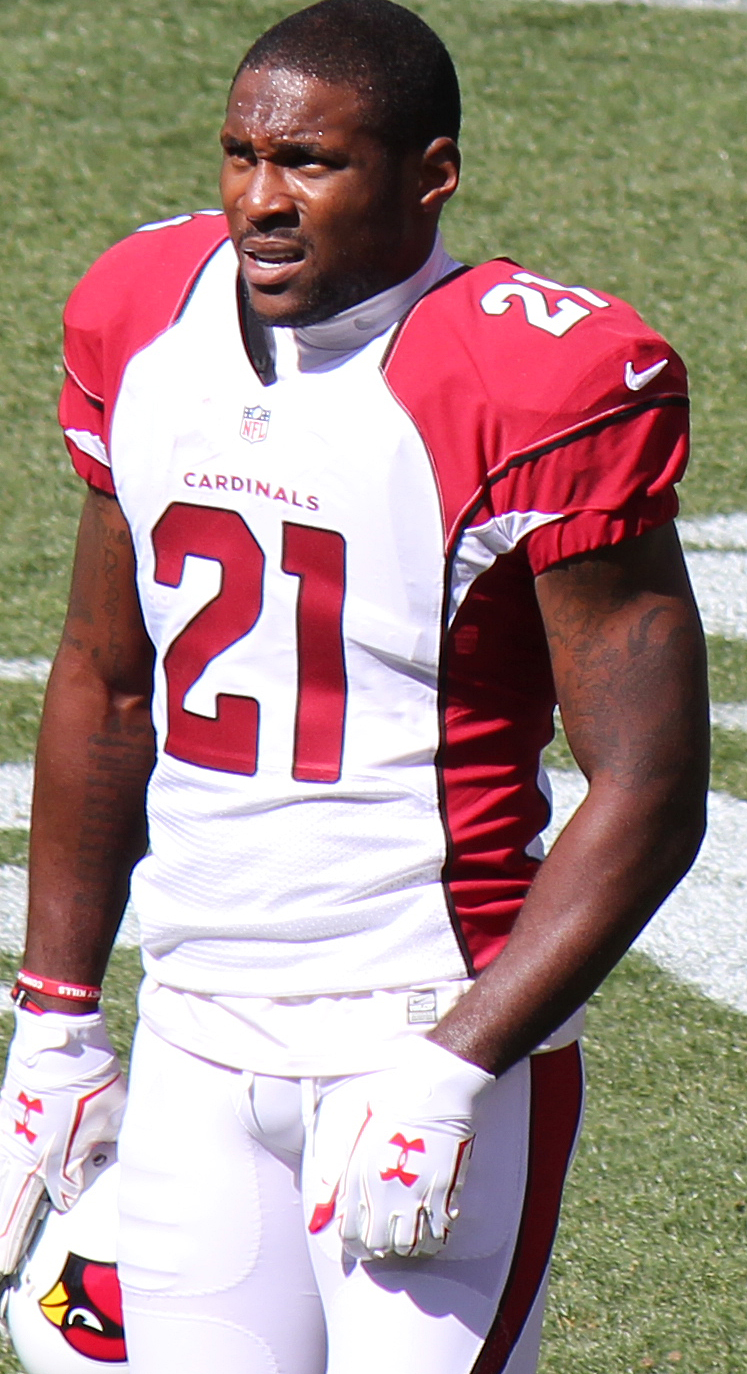 Patrick Peterson, a player on the National Football League.